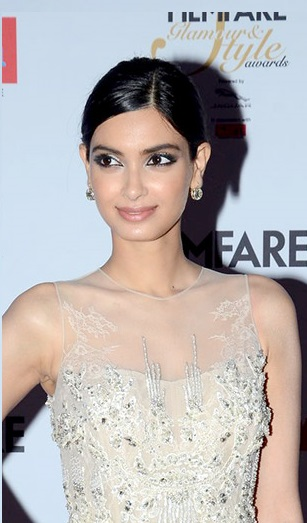 Diana Penty at Filmfare Glamour & Style Awards 2016